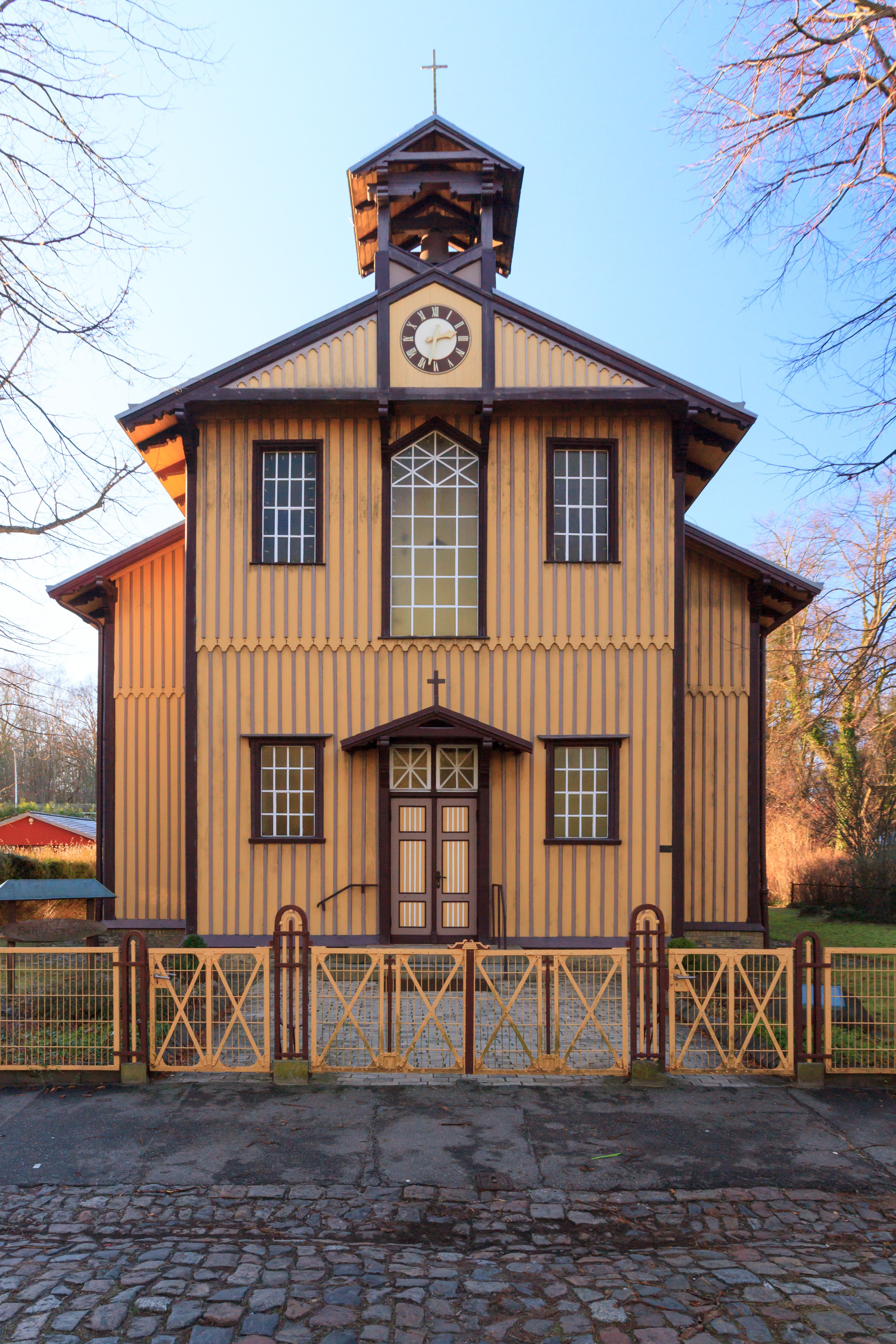 Bethlehem-Kirche (Kiel-Friedrichsort)